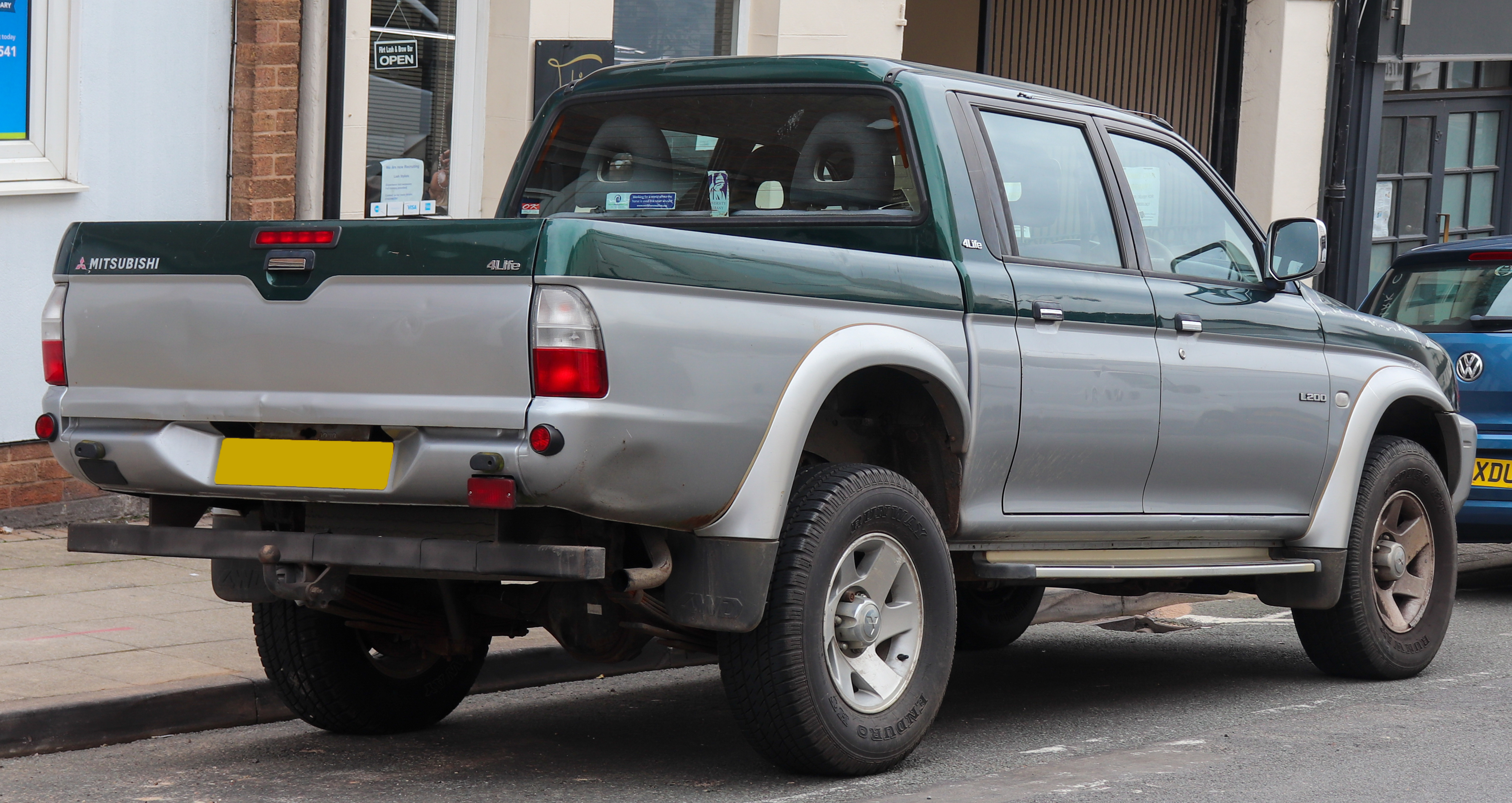 2002 Mitsubishi L200 4Life 4WD 2.5 Rear Taken in Leamington Spa